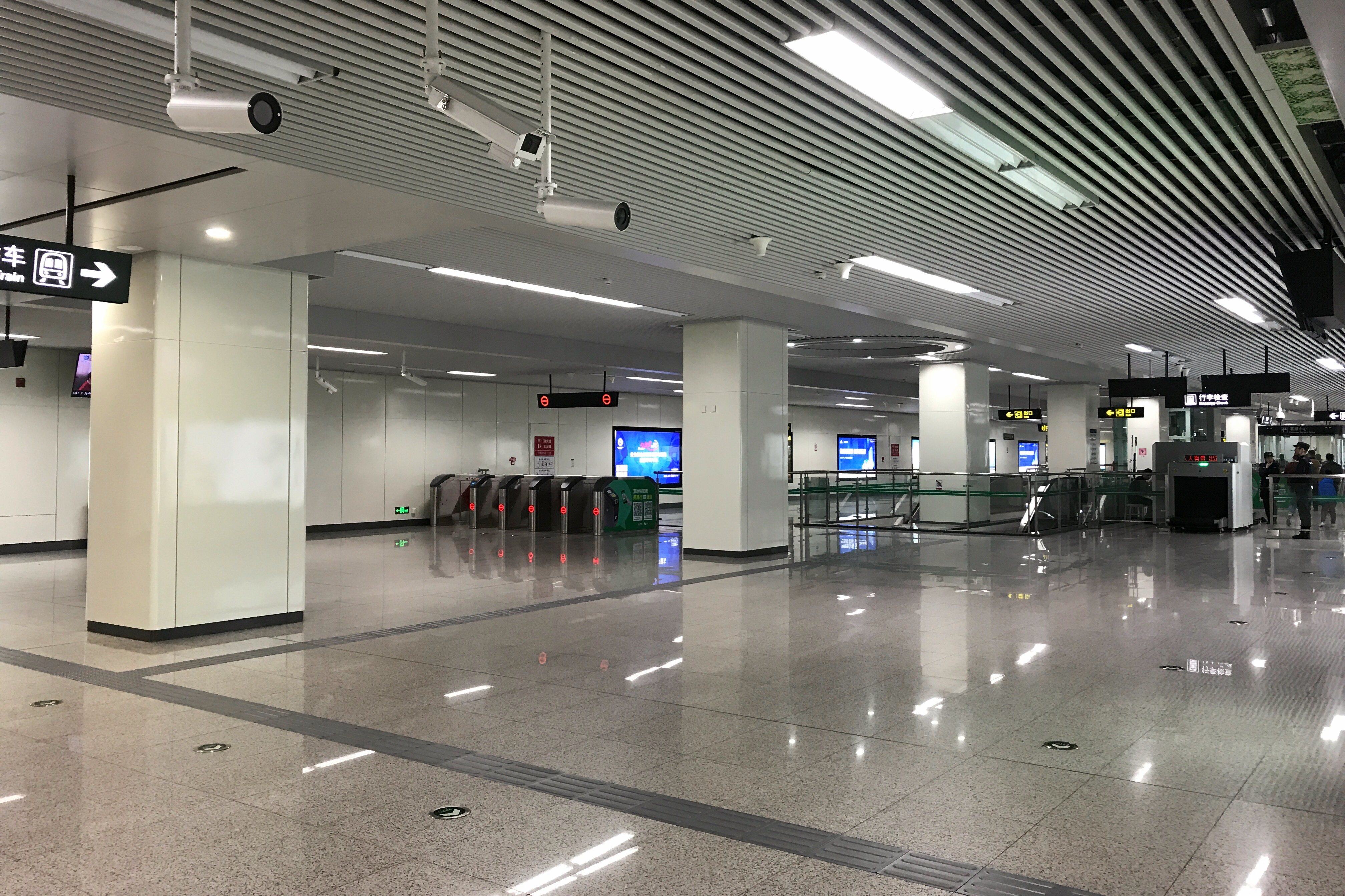 Concourse of Zhengzhou Metro Zhongyixilu Station